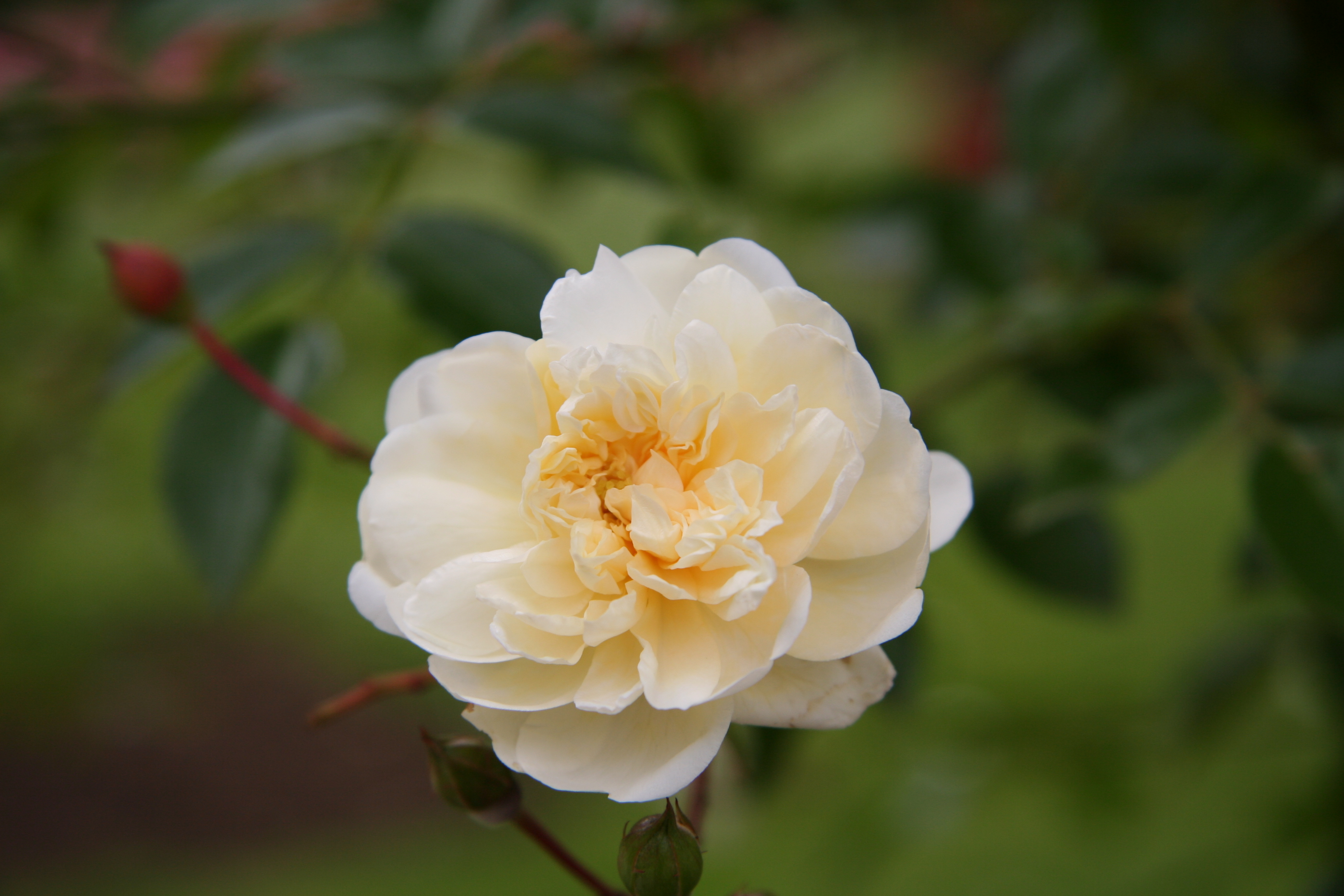 Alberic Barbier rose - Bagatelle Rose Garden (Paris, France).